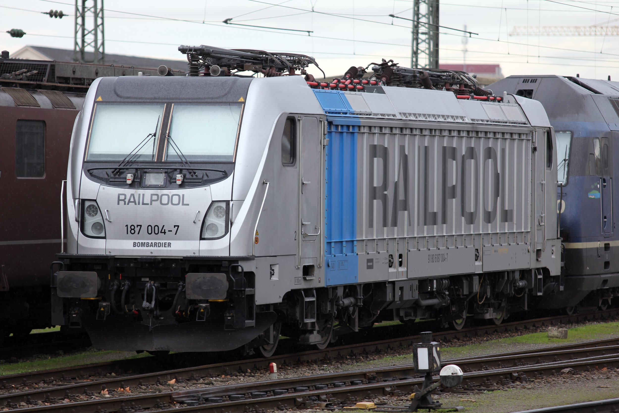 The Traxx Last Mile 187 004-7 in Basel Badischer Bahnhof.